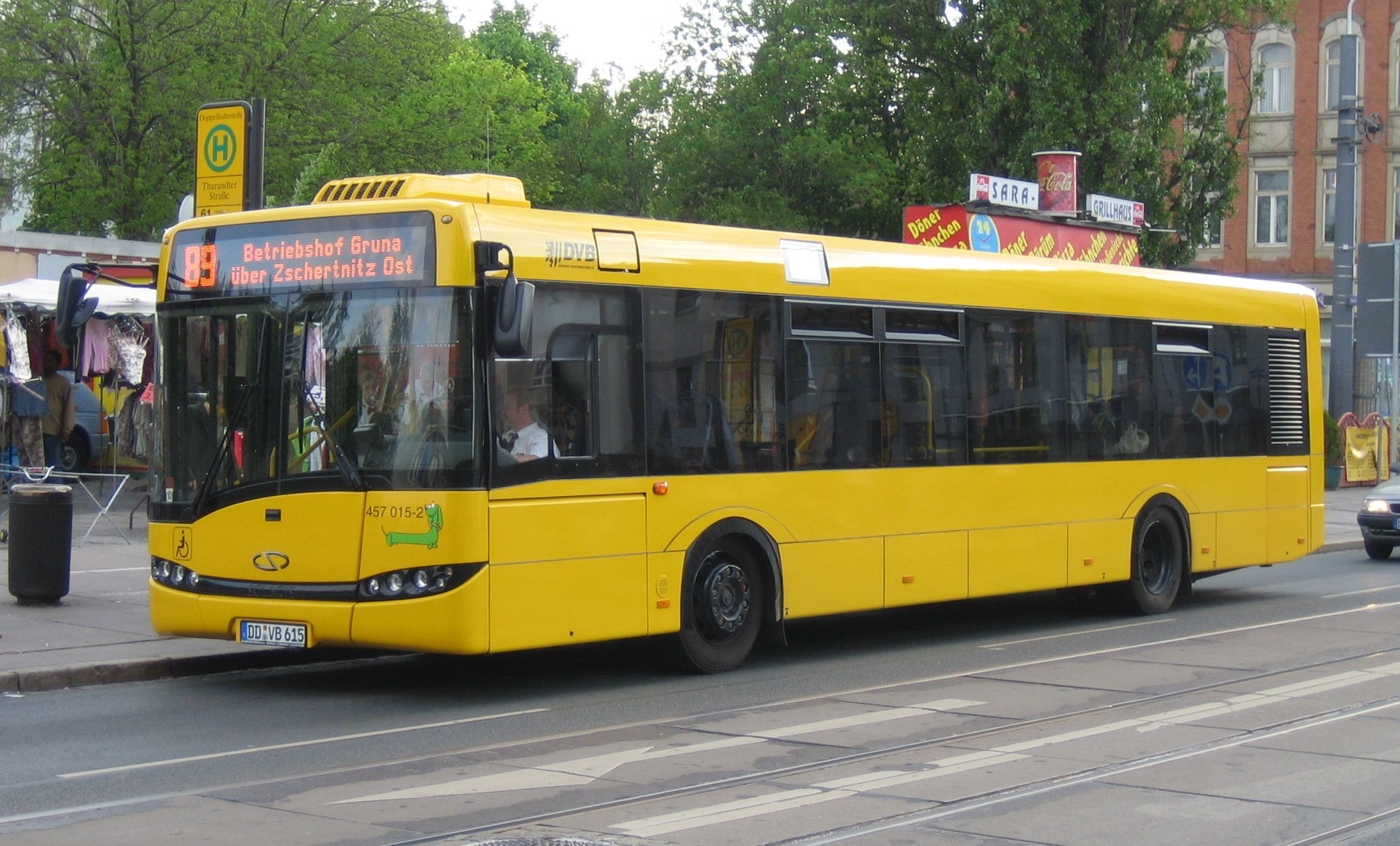 Low-floor bus Solaris Urbino 12 (#457 015-2) of the Dresden Transport Authorities. Built 2005, DVB Dresden operator. Line 89 to Dresden-Zschertnitz, at the stop Tharandter Straße